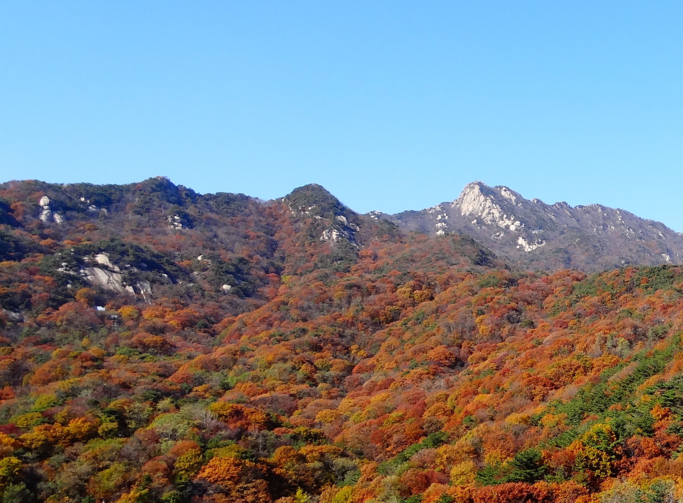 Landscape of Bukhansan with autumn leaves in September - from southern side. Taken in Sept. 2013 at Kookmin University. You can see Hyeongjae Peak (left) and Bohyeon Peak (right).